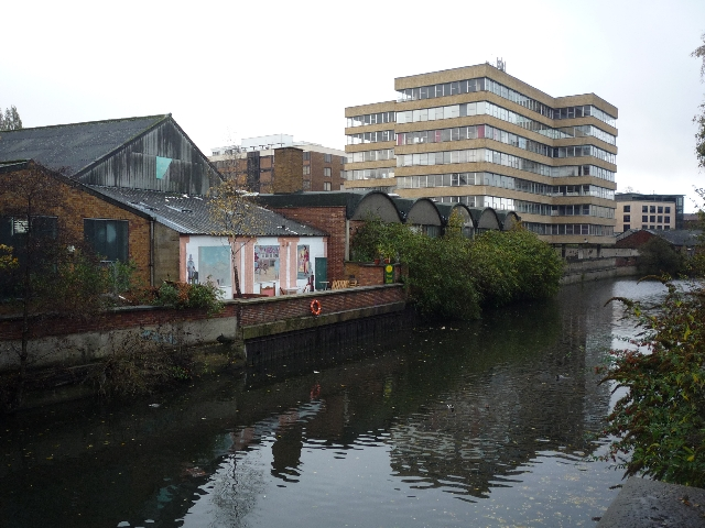 River Foss The Foss meanders past some of the buildings on Piccadilly. Viewed from the car park next to the Castle Museum and Clifford's tower.